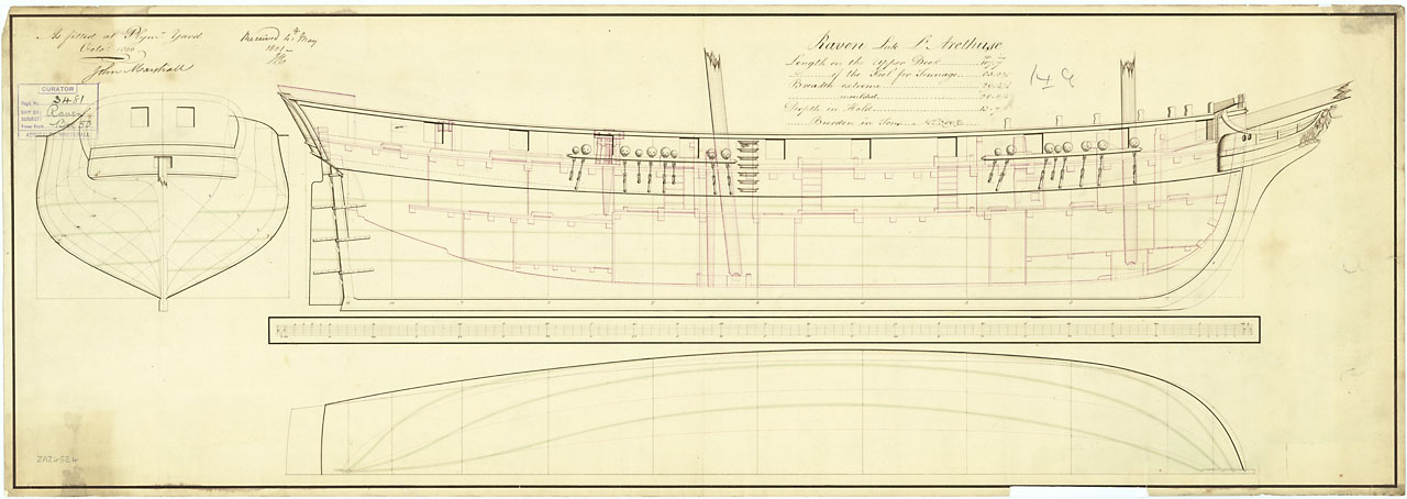 Raven (captured 1799) Scale: 1:48. Plan showing the body plan with stern board outline, sheer lines with inboard detail and figurehead, and longitudinal half-breadth for Raven (captured 1799), a captured French Brig, as fitted as an 18 gun Brig Sloop at Plymouth Dockyard. Signed by John Marshall [Master Shipwright, Plymouth Dockyard, 1795-1801]. RAVEN 1799